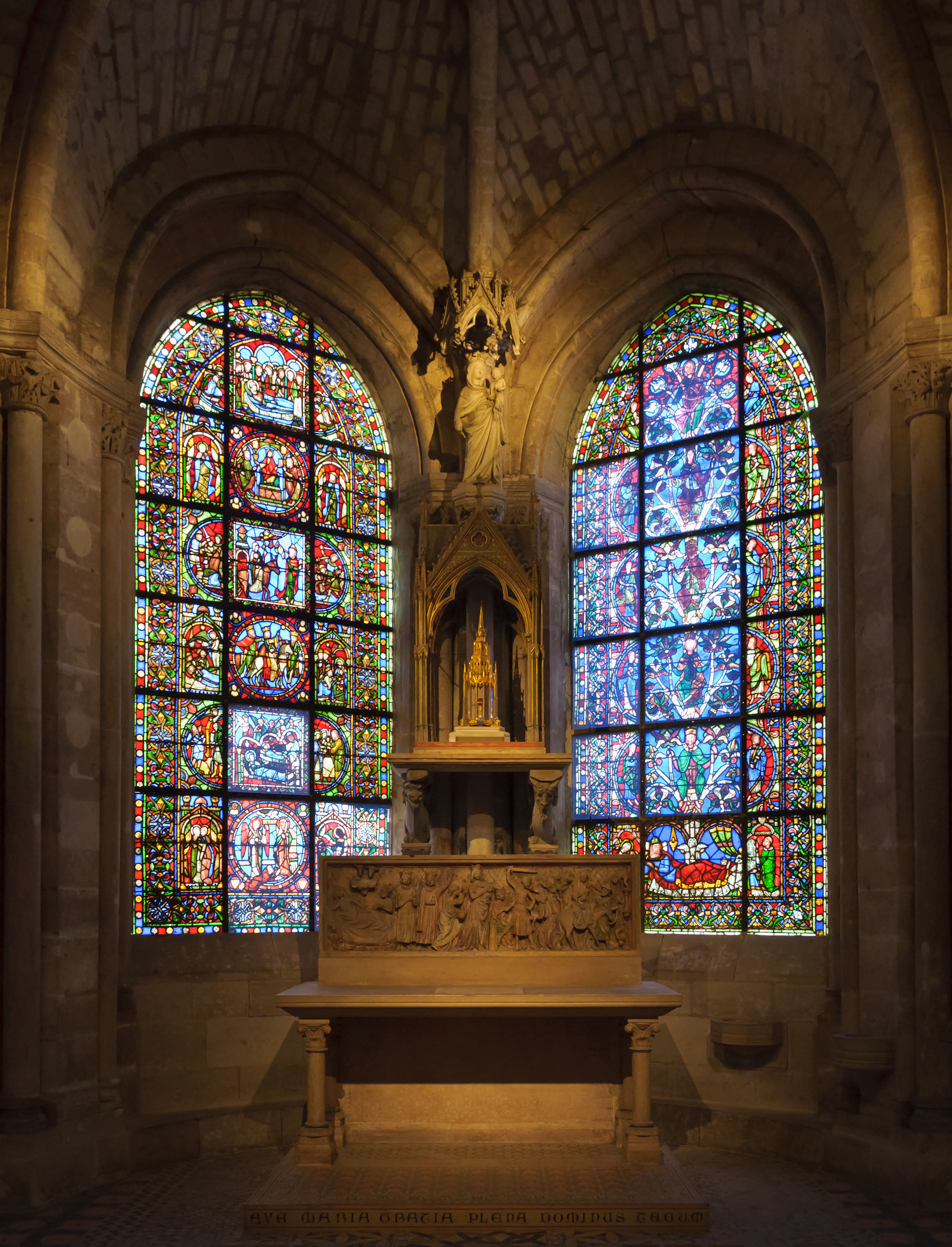 Basilica of St Denis, France: chapel of the Virgin. Stained glass windows: on the left, the Childhood of Christ (12th- and 19th-century); on the right, the Tree of Jesse (12th- and 19th-century). Reredos depicting the Childhood of Christ (13th-century), painted stone. Reliquary containing a supposed piece of the wrist of Saint Louis.